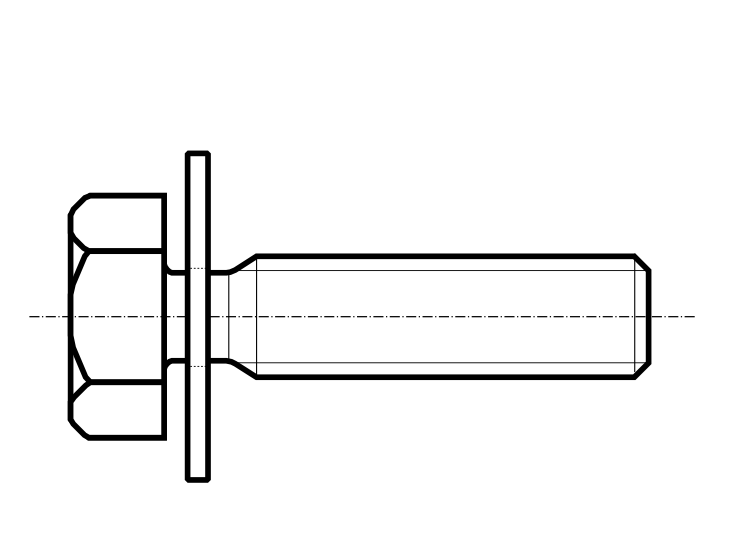 Screw (bolt) 24B-J